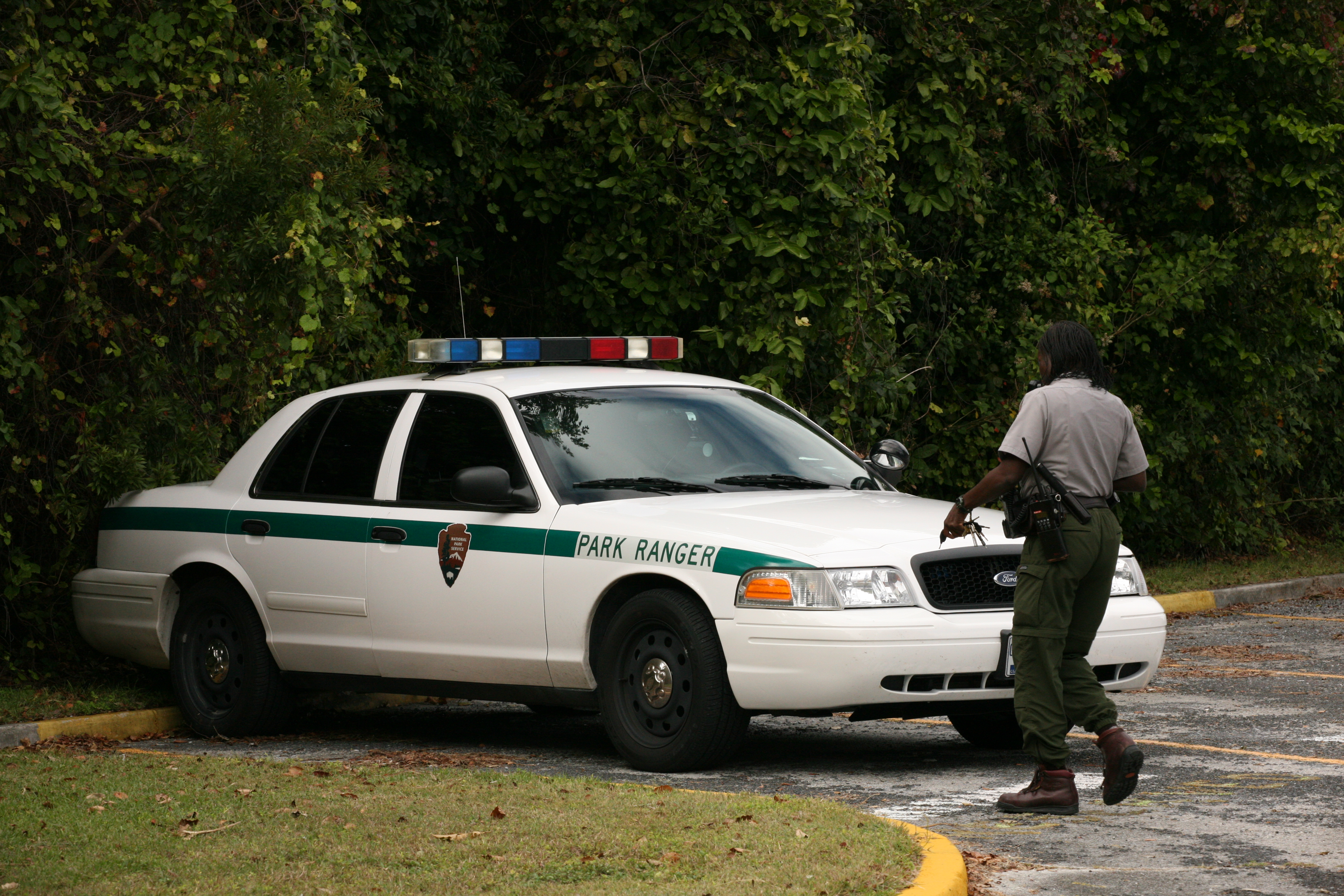 Park Ranger with car in Everglades National Park